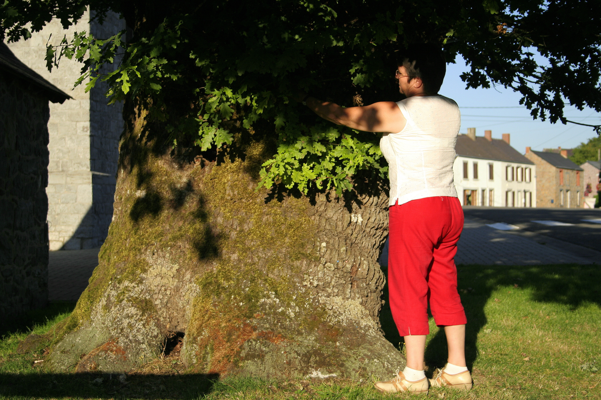 Pedunculate oak.